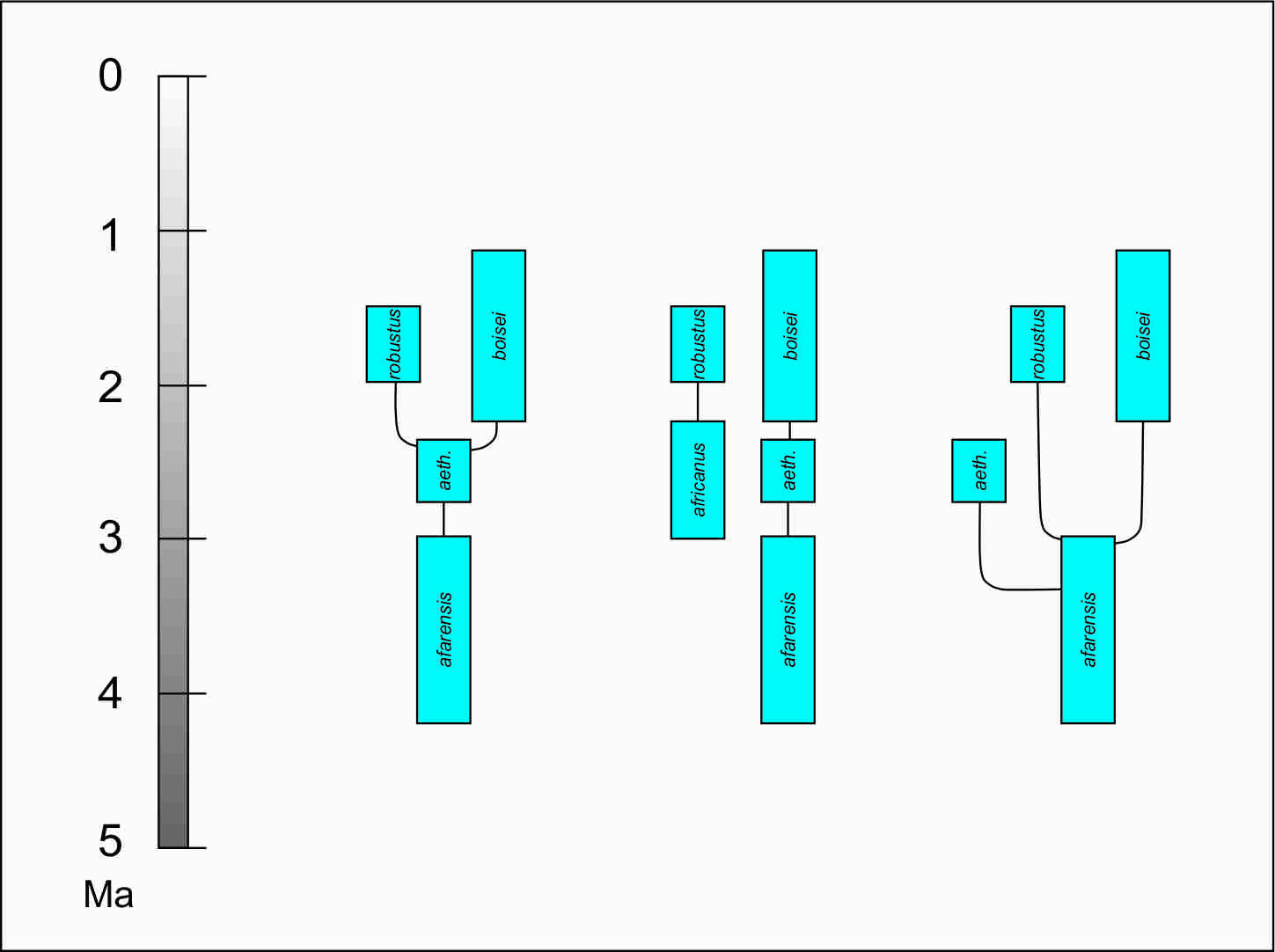 Paranthropus evolution schemes (aeth. - Paranthropus aethiopicus)